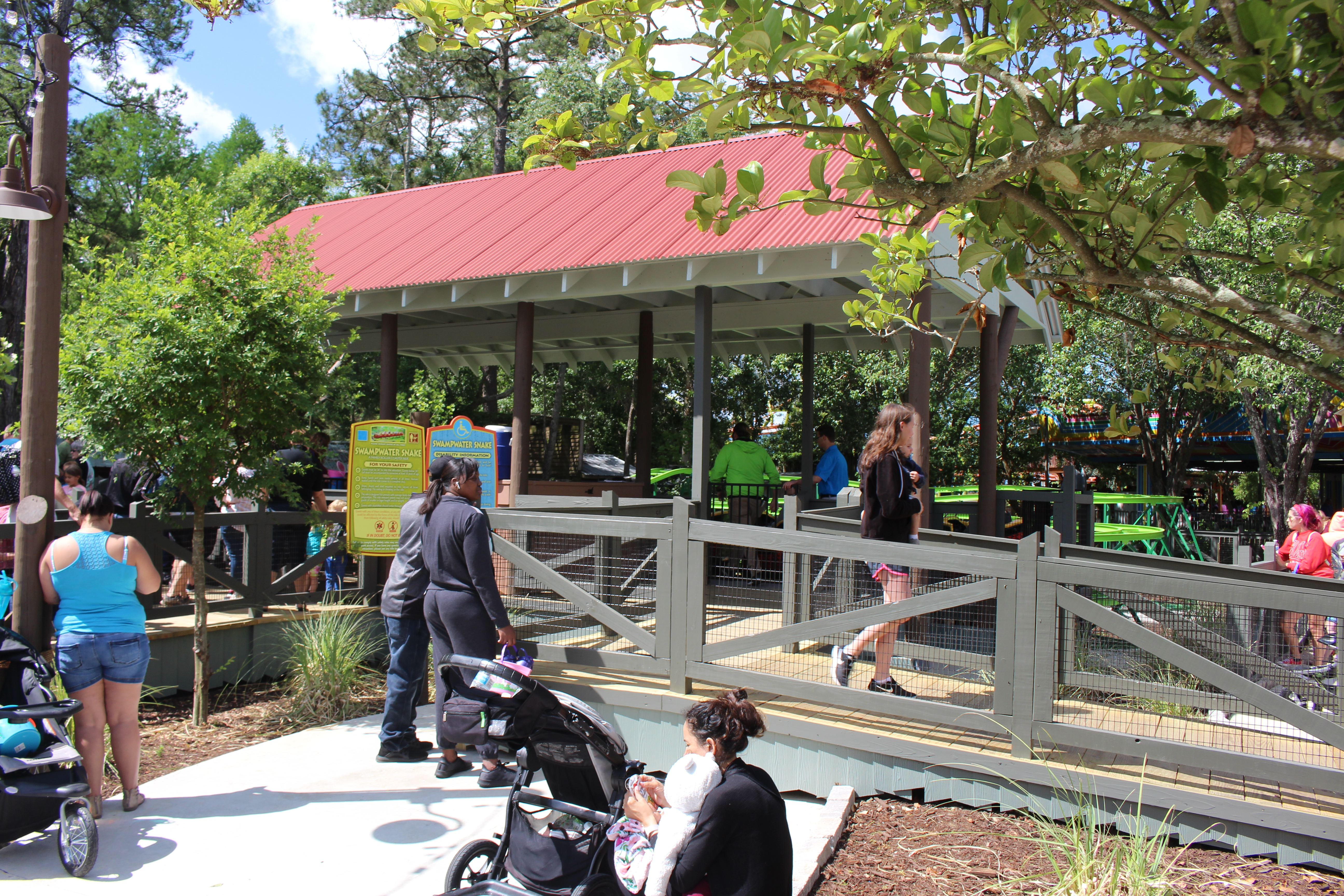 Discovery Outpost, Wild Adventures, Lowndes County, Georgia